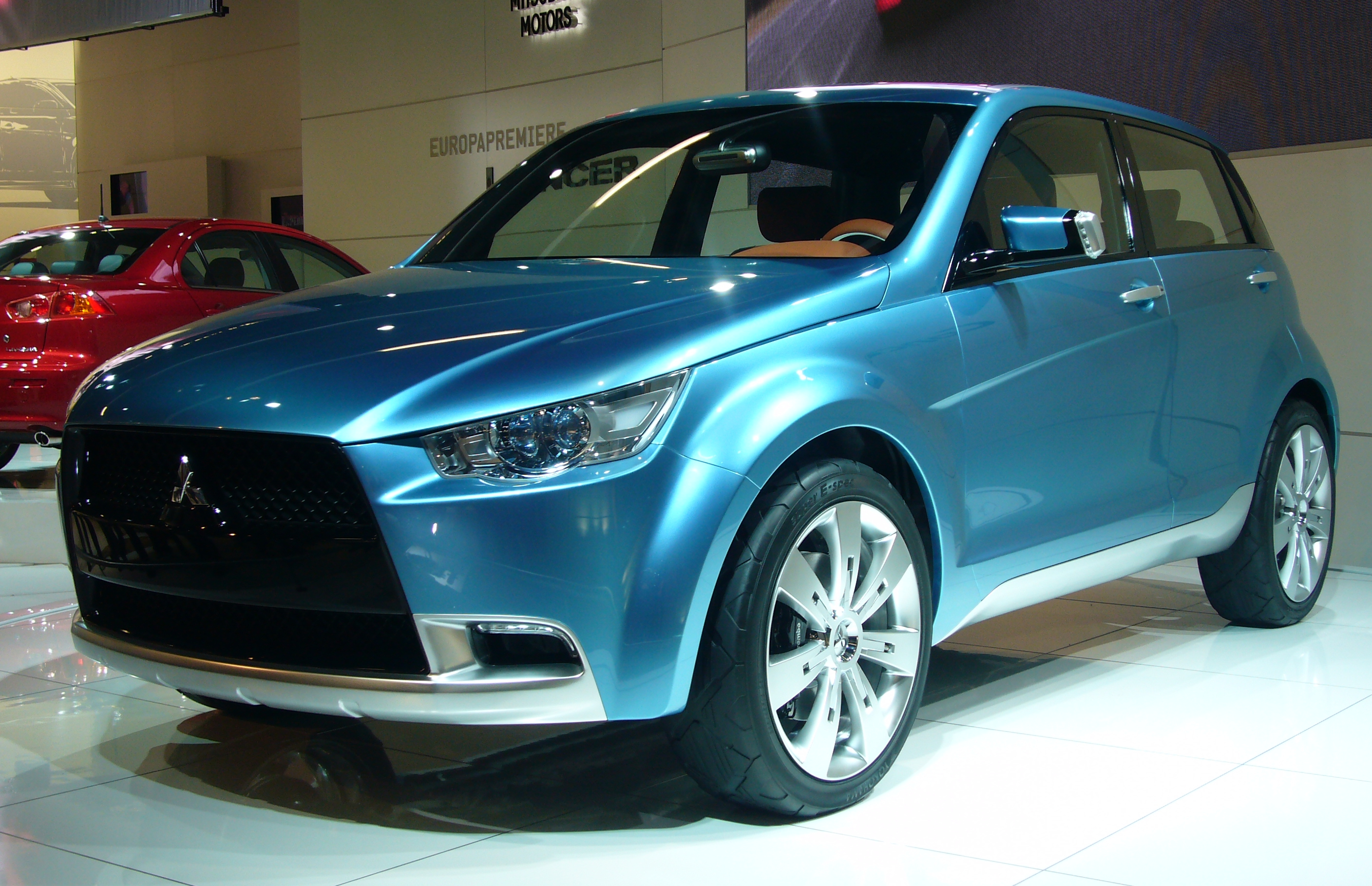 Mitsubishi Concept-cX at IAA Frankfurt 2007